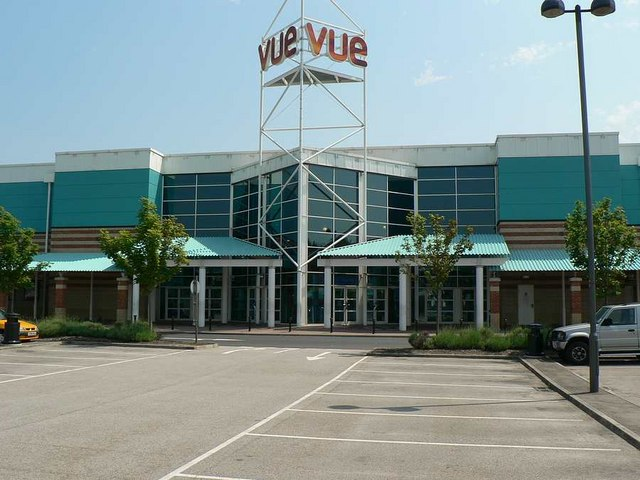 Vue Cinema, Cardigan Fields, Kirkstall Road, Leeds. This opened in 1998 as the Warner Village, and later became the Vue. The Cardigan Fields leisure complex was built on the site of a number of streets of back to back houses such as Cardigan Row, which can be seen in an archive photo from 1967 on the Leodis website